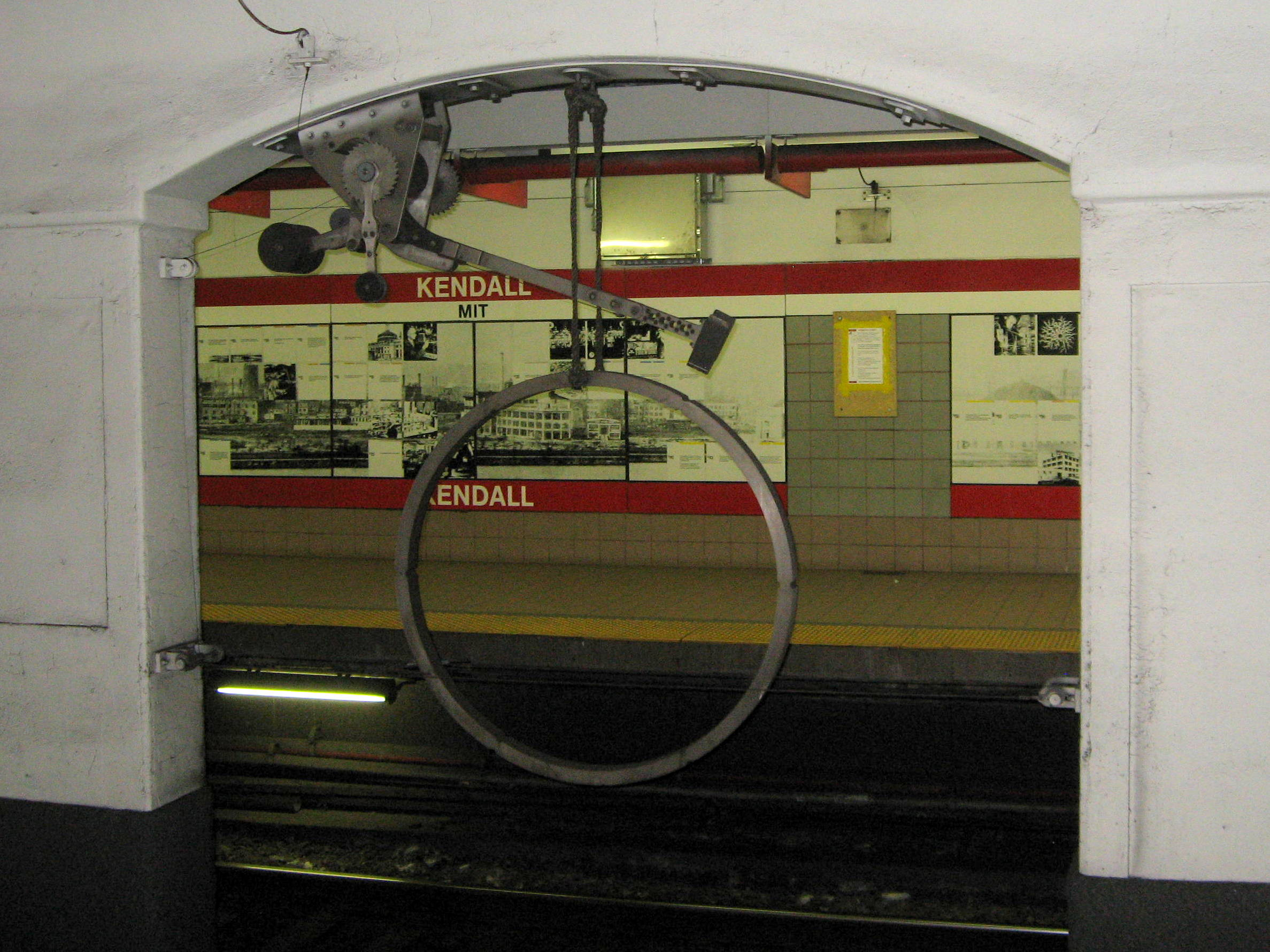 Kepler, part of the Kendall Band artwork, in April 2011